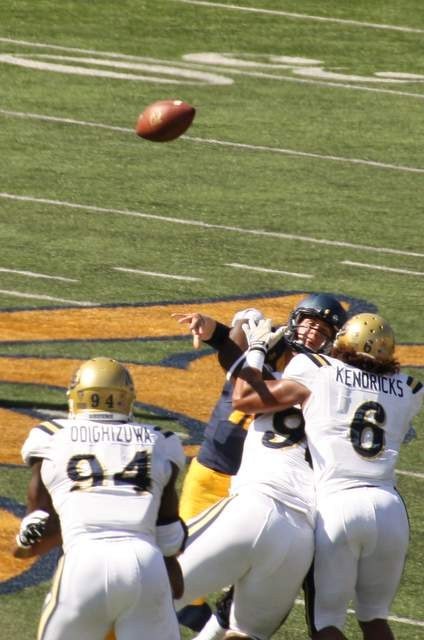 Jared Goff of California Golden Bears pressured by Eric Kendricks and Owamagbe Odighizuwa of UCLA Bruins while passing.